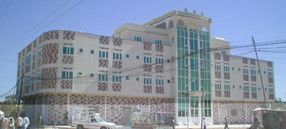 A large shopping mall in Burco, situated in the northwestern Somaliland region of Somalia